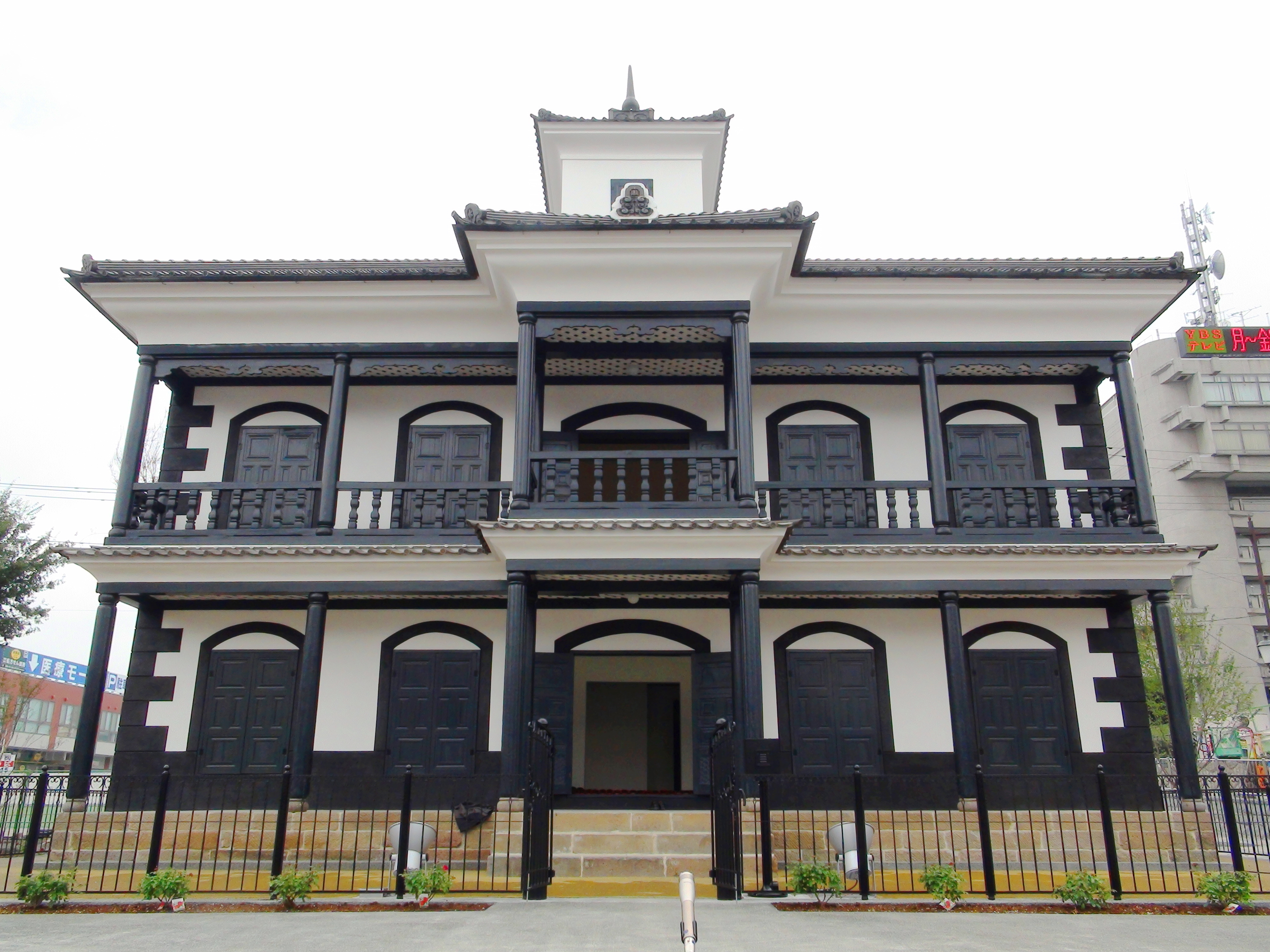 Fujimura Memorial Hall in Kofy-City 1875 construction Important Cultural Properties of Japan